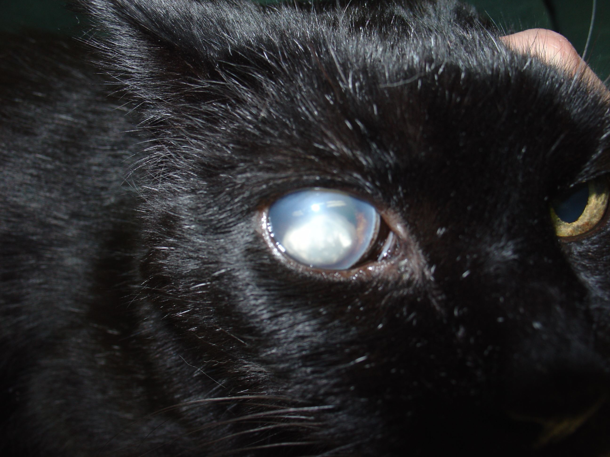 Anteriorly luxated lens with associated cataract in a cat.